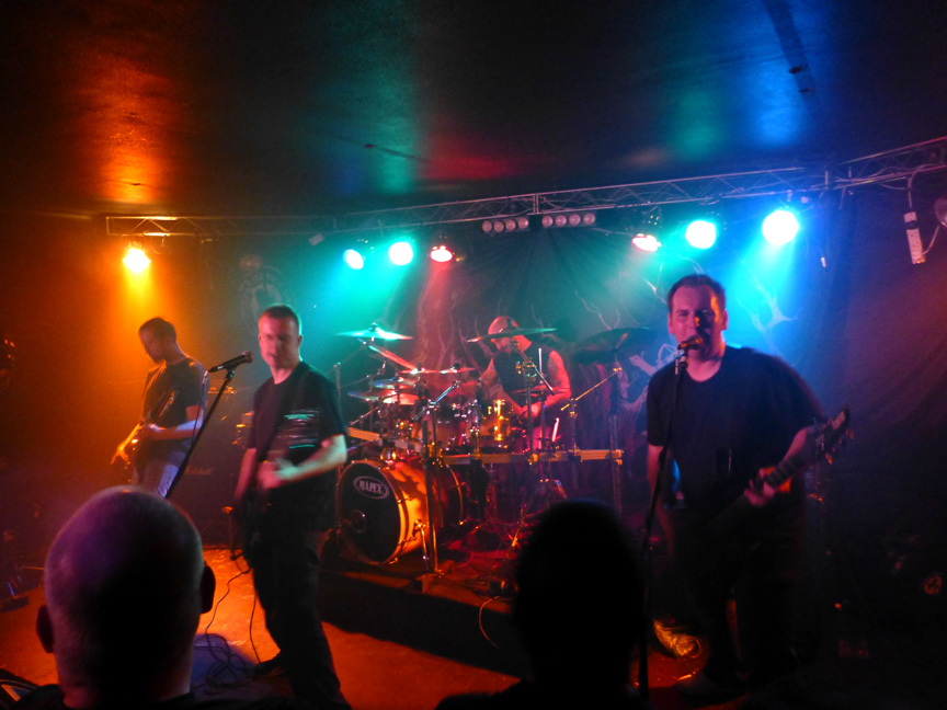 English black metal band, Winterfylleth, playing at Birmingham's Asylum 2 venue on Hampton Street on 13 September 2013.